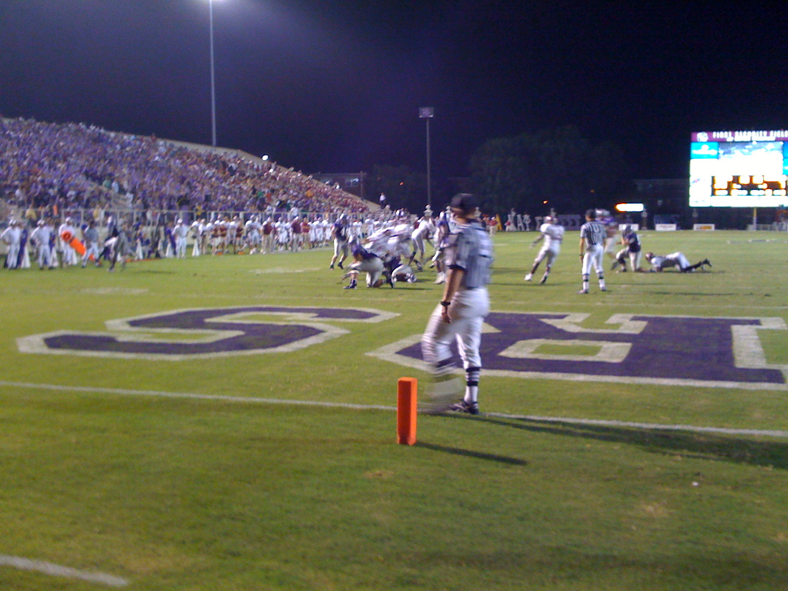 UCA Bears playing football.